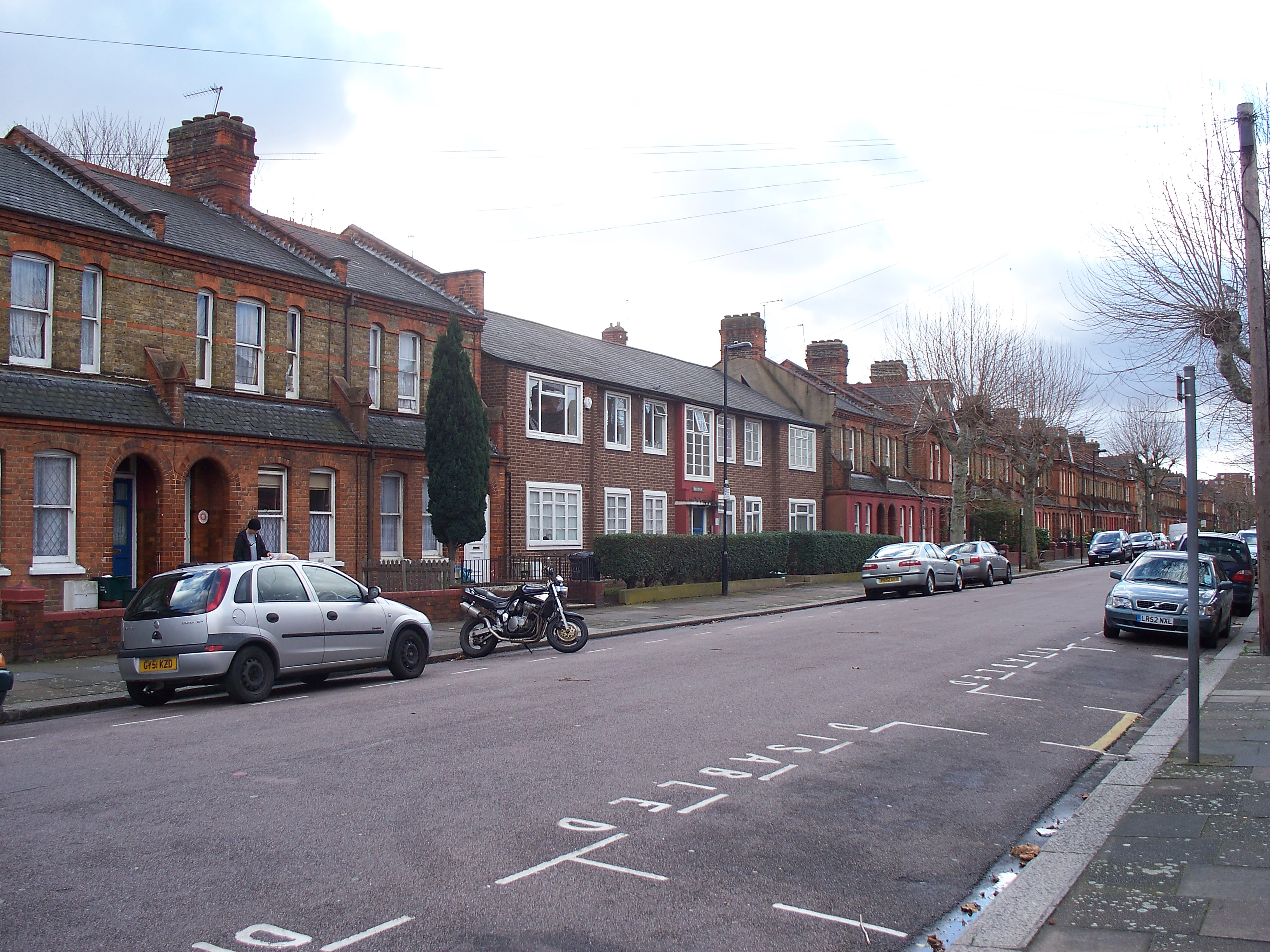 Postwar replacements for bombed houses, Noel Park, London N22. Photograph taken in a public location in the UK of a building on permanent public display, and exempt from copyright under Section 62 of the Copyright Designs & Patents Act 1988 ("it is not an infringement of copyright to film, photograph, broadcast or make a graphic image of a building, sculpture, models for buildings or work of artistic craftsmanship if that work is permanently situated in a public place or in premises open to the public")